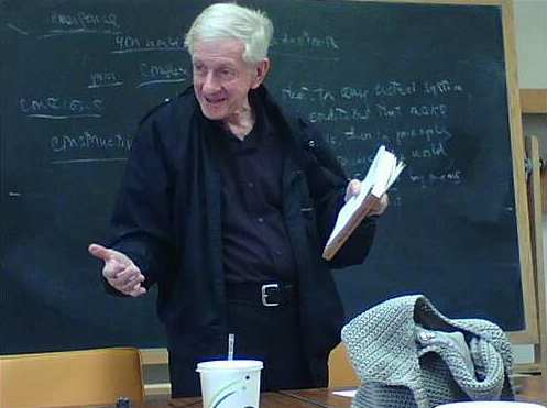 This is a picture of Joseph Margolis, Philosophy Professor at Temple University.